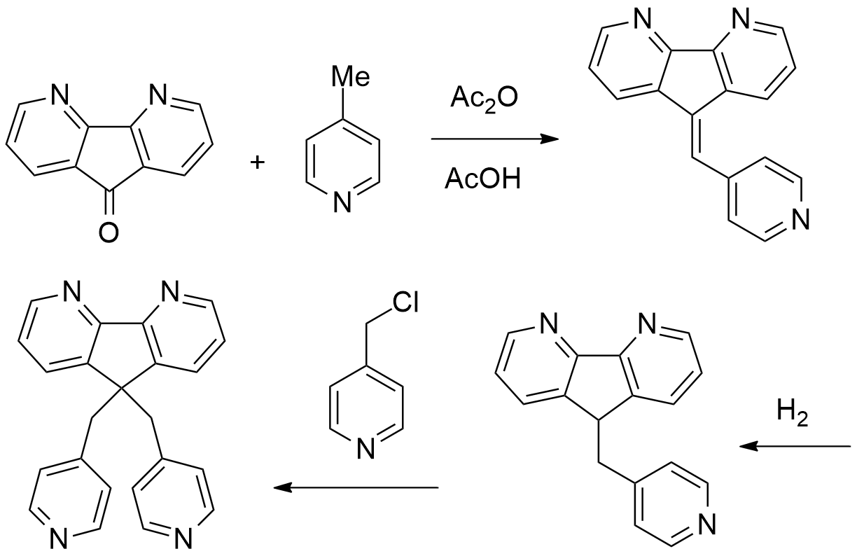 US5272269